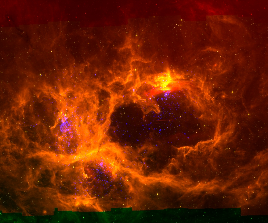 Red: 8.0µm from Spitzer/IRAC; Green: 5.8µm from Spitzer/IRAC; Blue: X-ray from Chandra/ACIS-I